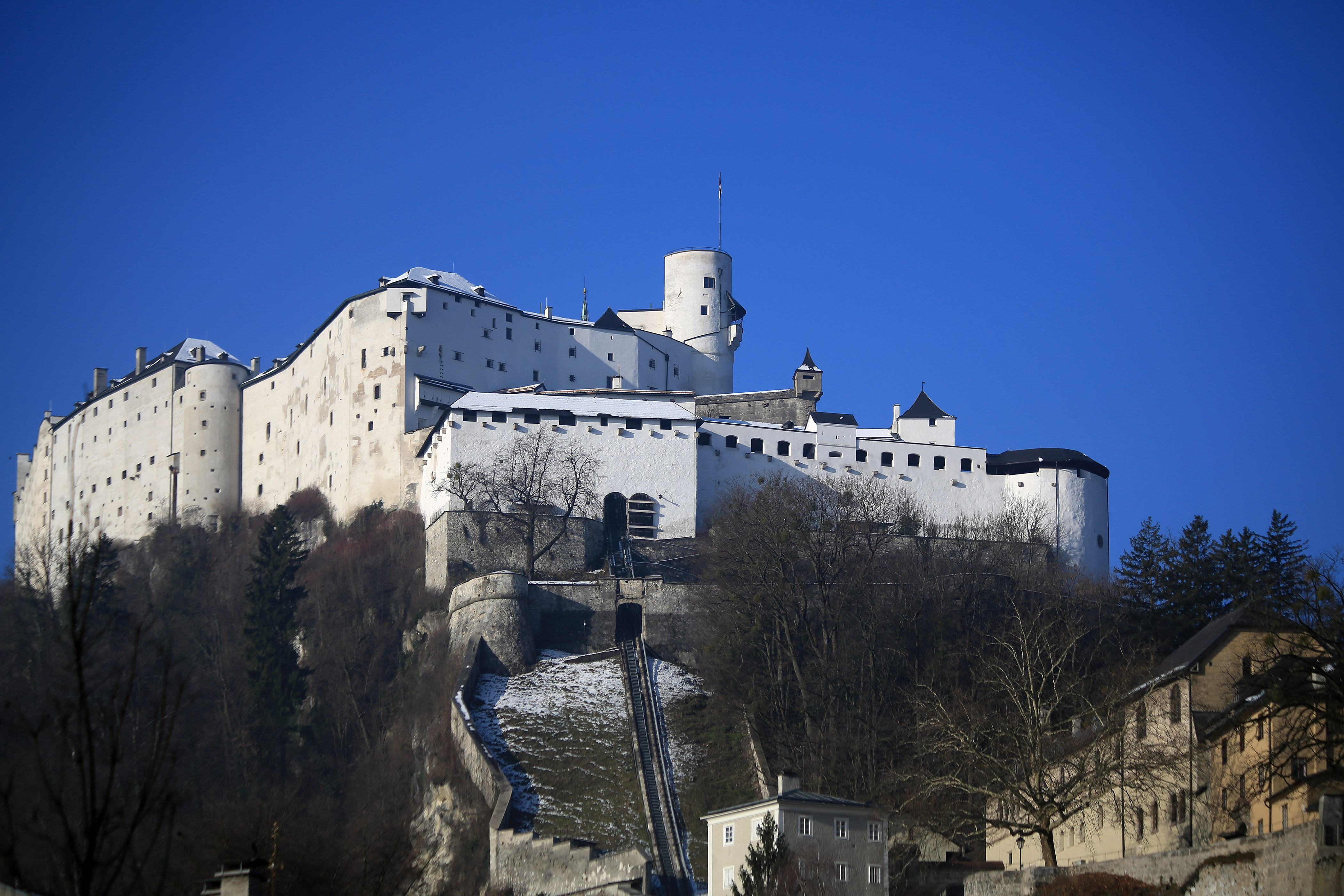 Hohensalzburg Castle with Reisszug, buildings of Nonnberg Abbey to the right, Salzburg, Austria.